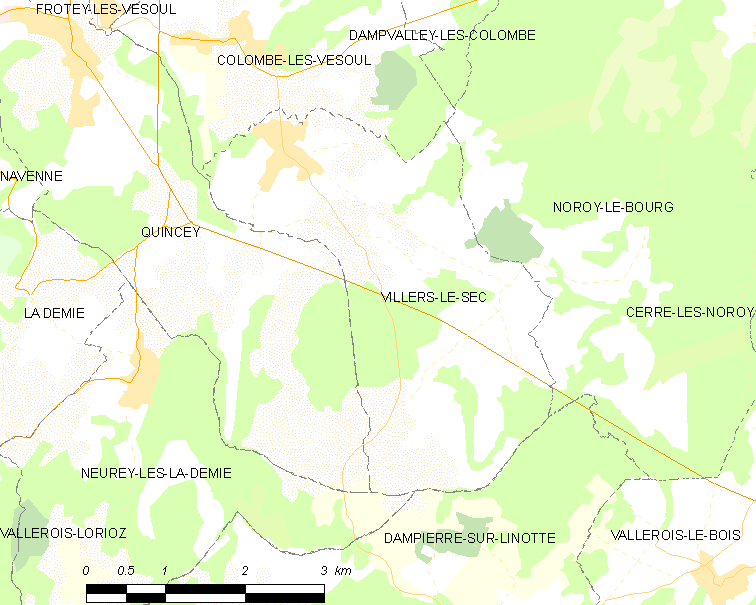 Map of French municipality